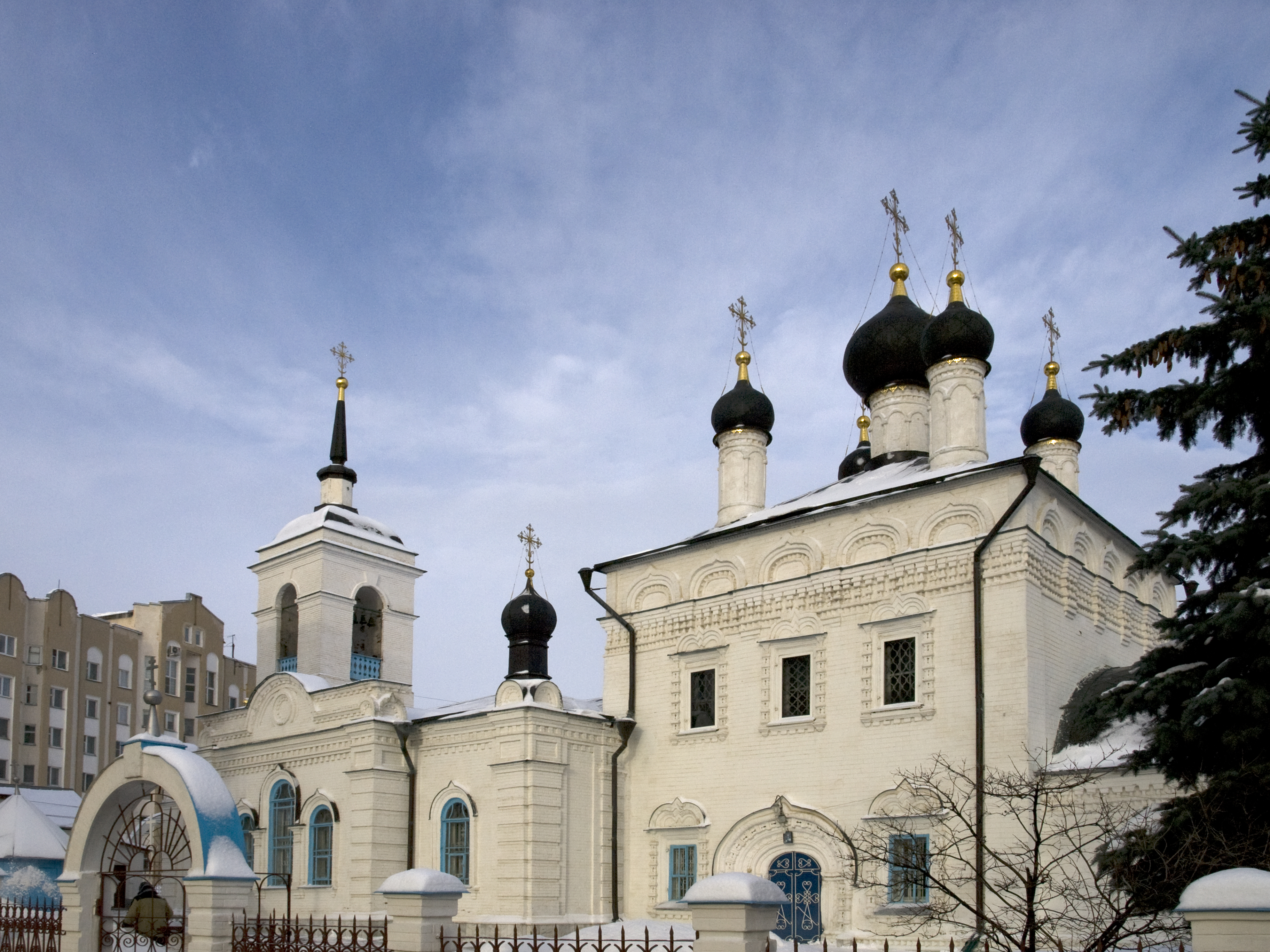 Church of John the Evangelist, Saransk (1693)